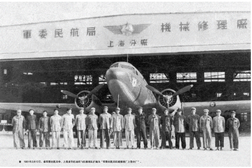 Airplane maintenance team of Longhua (Longhwa) Airport in 1951. 中文（中国大陆）: 1951年2月12日的上海龙华机场飞机维修队，时称“军委民航局机械修理厂上海分厂”。